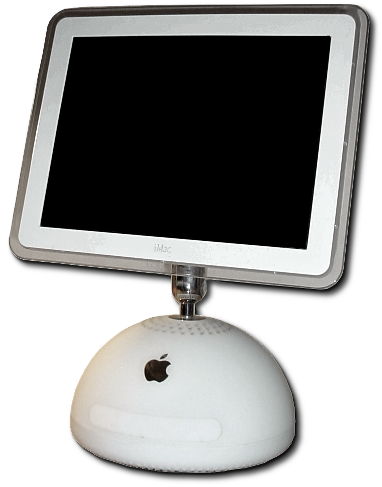 An Apple iMac G4 15-inch. Photo taken by uploader, all rights released. Edited using Adobe Photoshop CS3